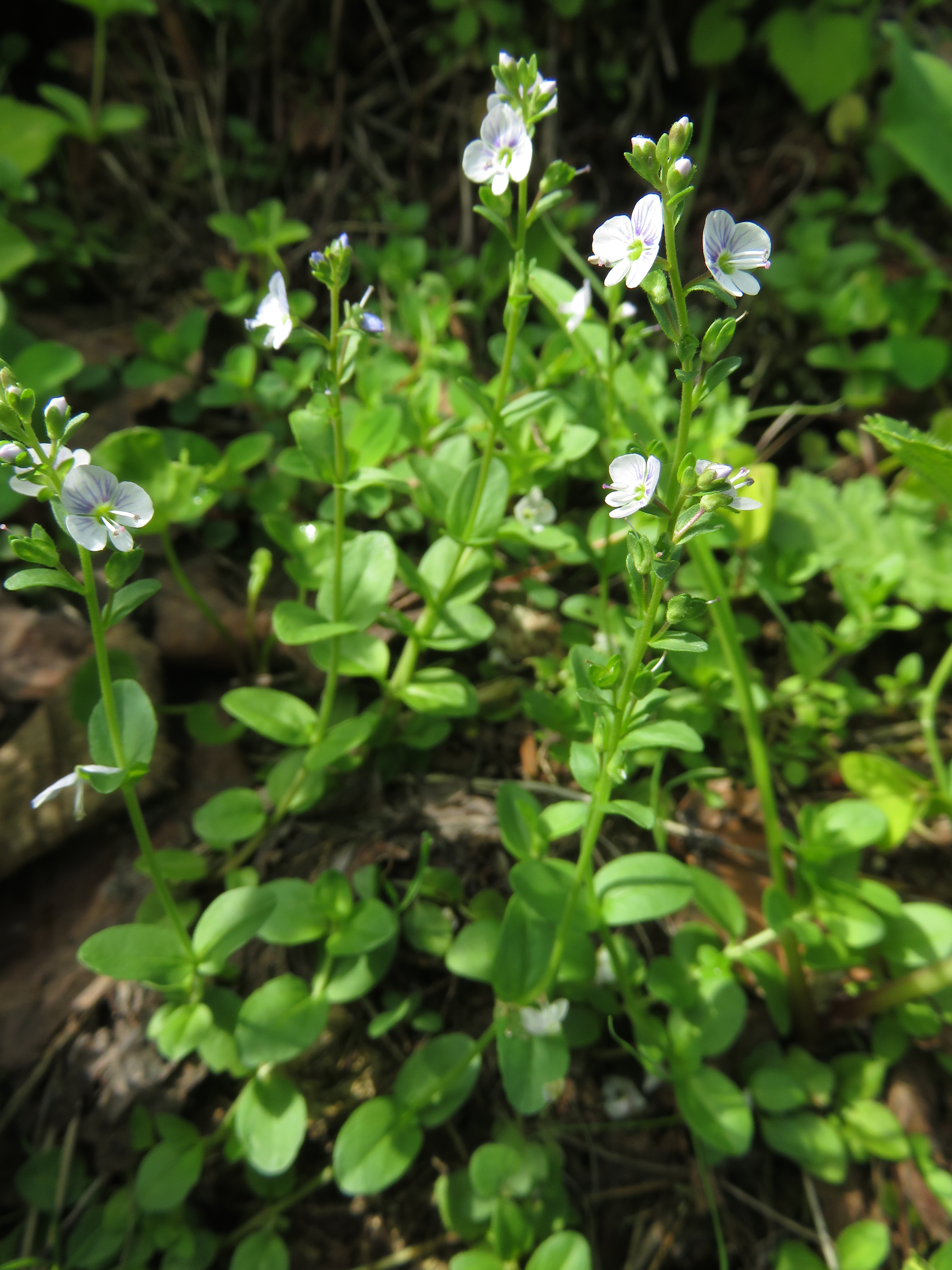 Veronica serpyllifolia subsp. humifusa, Oze, Fukushima pref., Japan